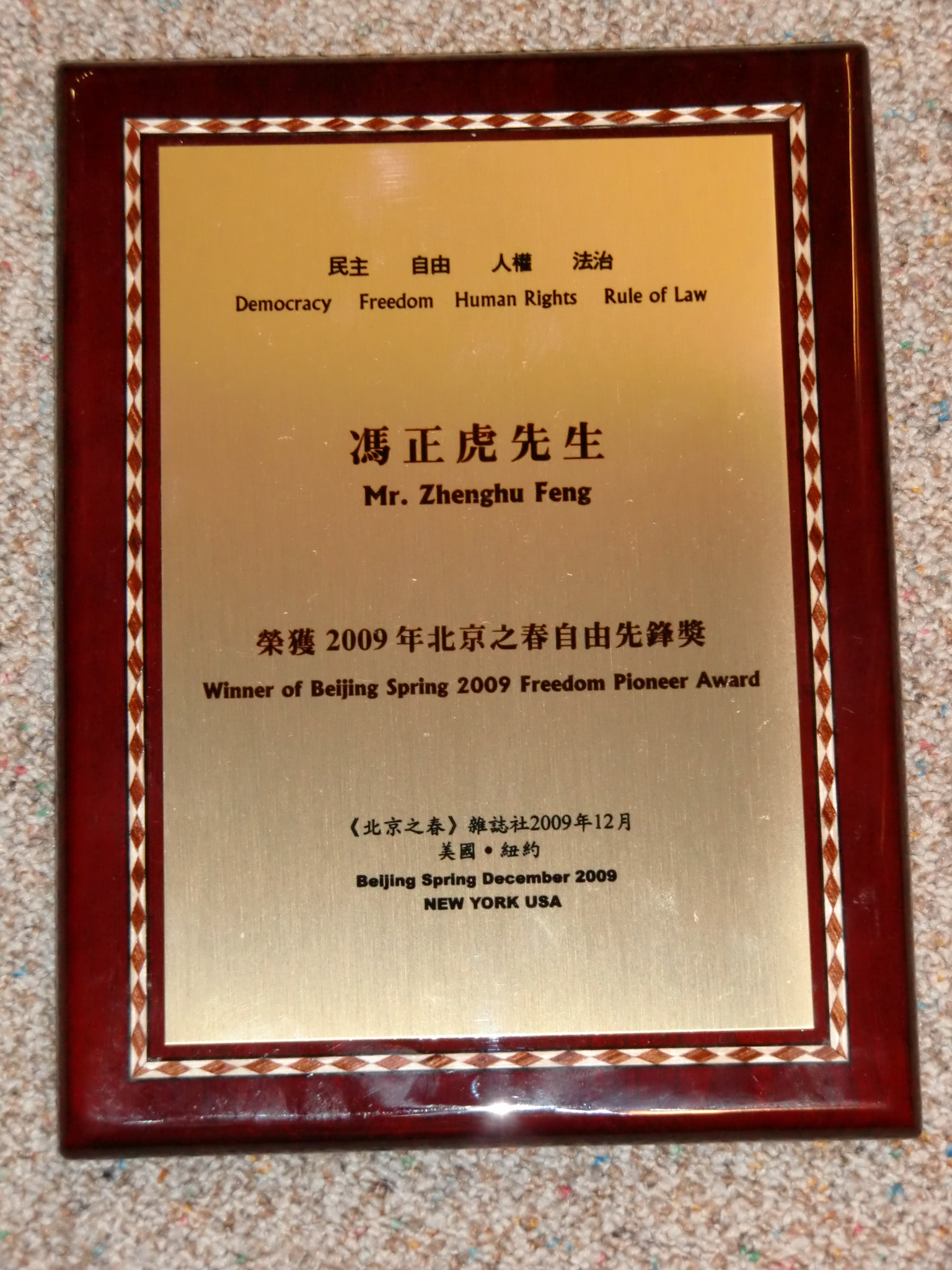 Feng Zhenghu's Beijing Spring 2009 Freedom Pioneer Award.